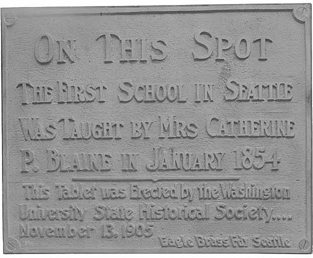 Text engraved on plaque: On this spot the first school in Seattle was taught by Mrs Catherine P. Blaine in January 1854. This tablet was erected by the Washington University State Historical Society.... November 13, 1905. Eagle Brass Fdy Seattle . Caption on image: 340. Peiser . Peiser 340 Subjects (LCTGM): Historical markers--Washington (State)--Seattle; Schools--Washington (State)--Seattle; Plaques--Washington (State)--Seattle